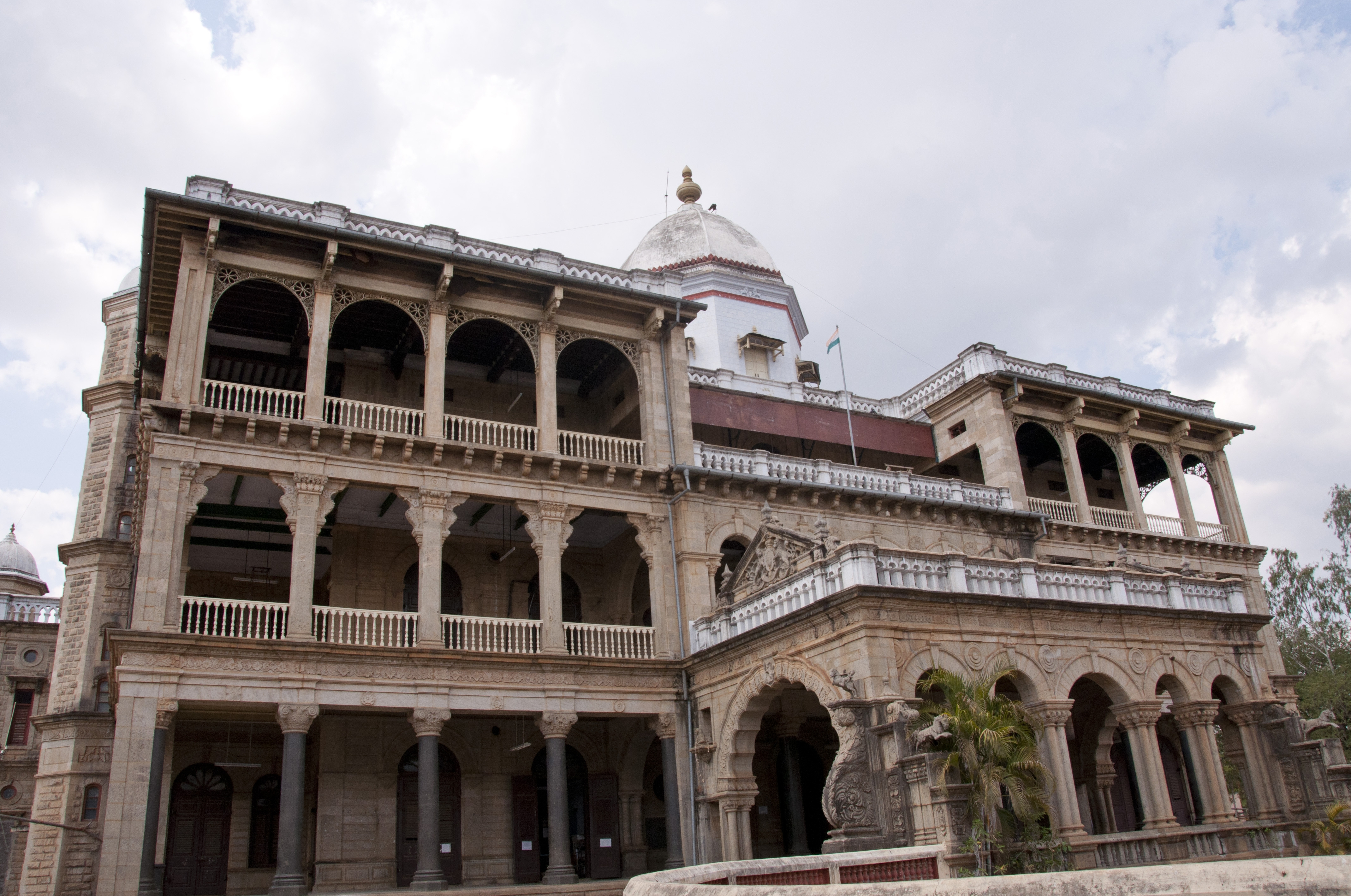 King's Palace of Pudukottai.